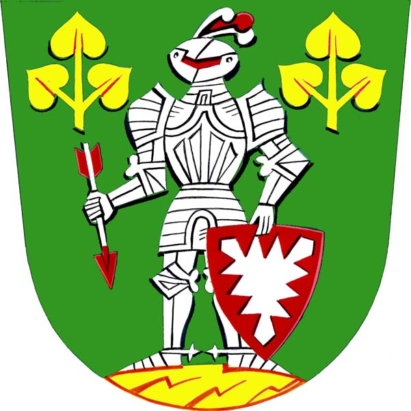 Municipal coat of arms of Kamenná Horka village, Svitavy District, Czech Republic.